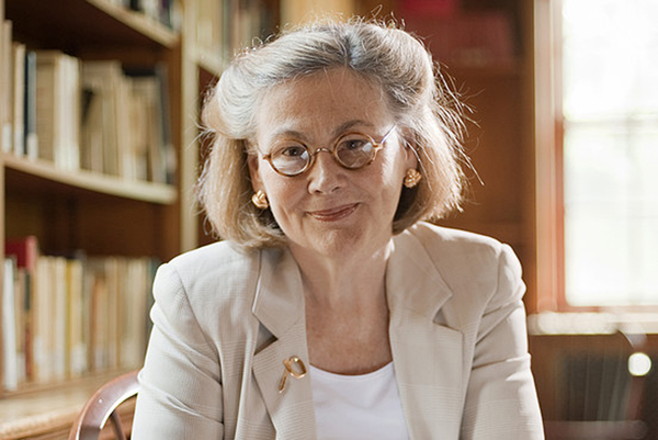 Alicia Munnell's headshot